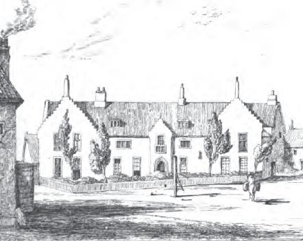 Illustration of Gresham's School, Holt, from John William Burgon's The Life and Times of Sir Thomas Gresham (1839) "from a sketch made on the spot in 1838" (detail).